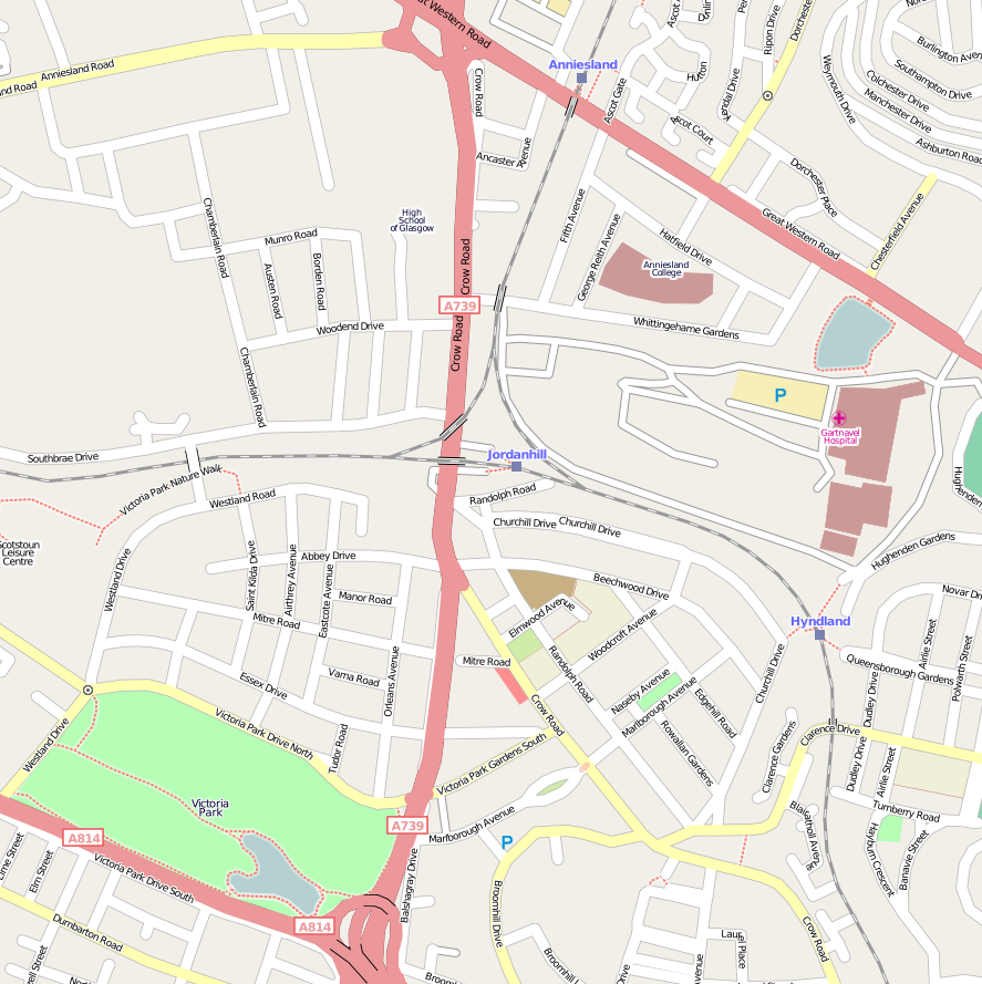 Map of Jordanhill station, Glasgow.